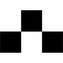 Mitsuishi, three stones, Japanese crest, Kamon